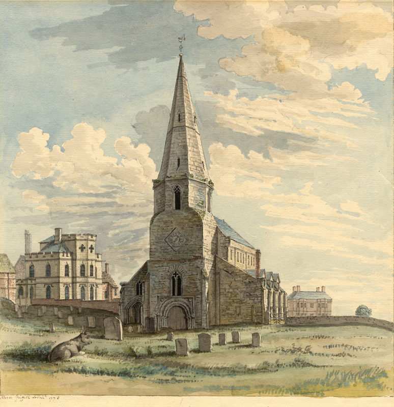 Watercolour painting of St Nicholas' Church, Kenilworth, seen from the west